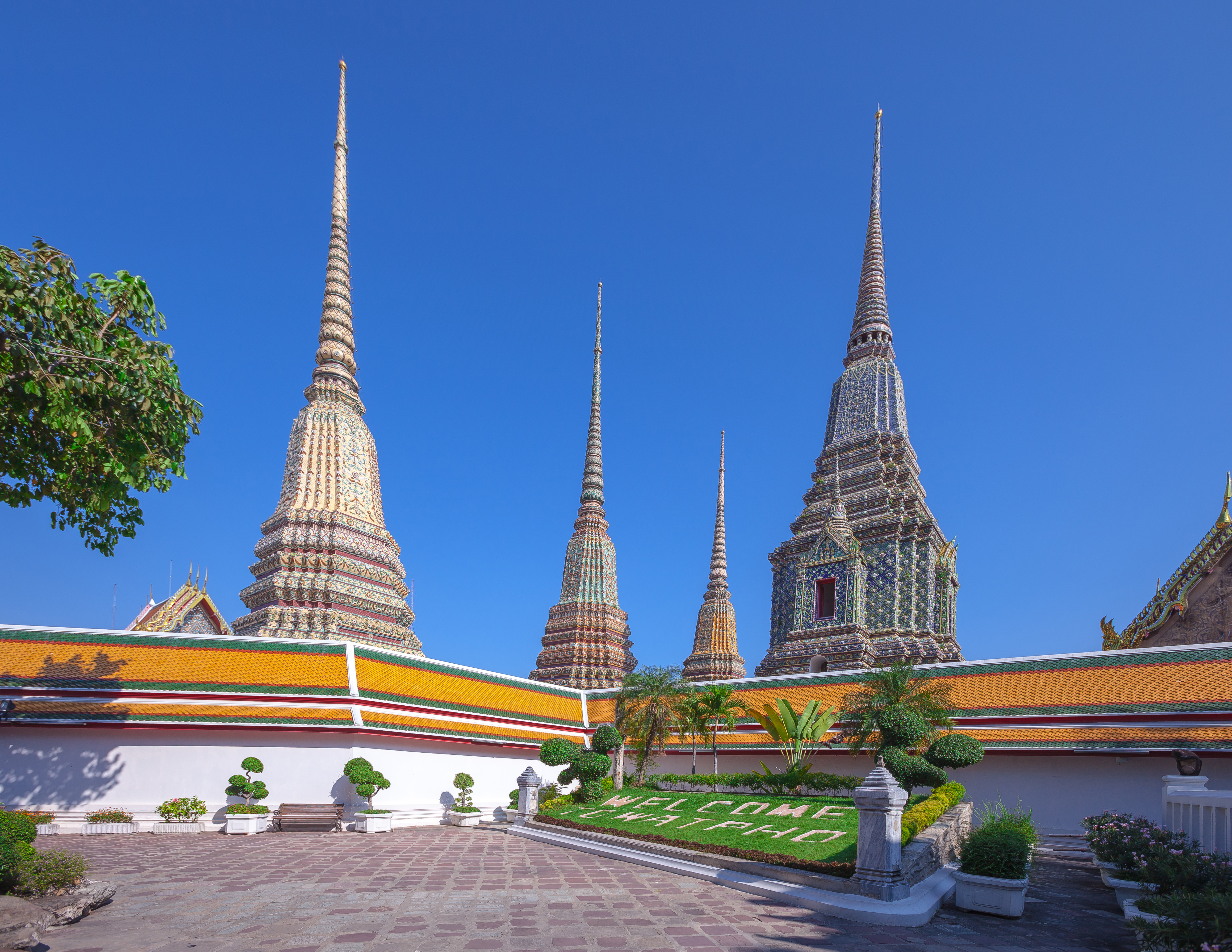 The Four Chedi of Wat Pho.